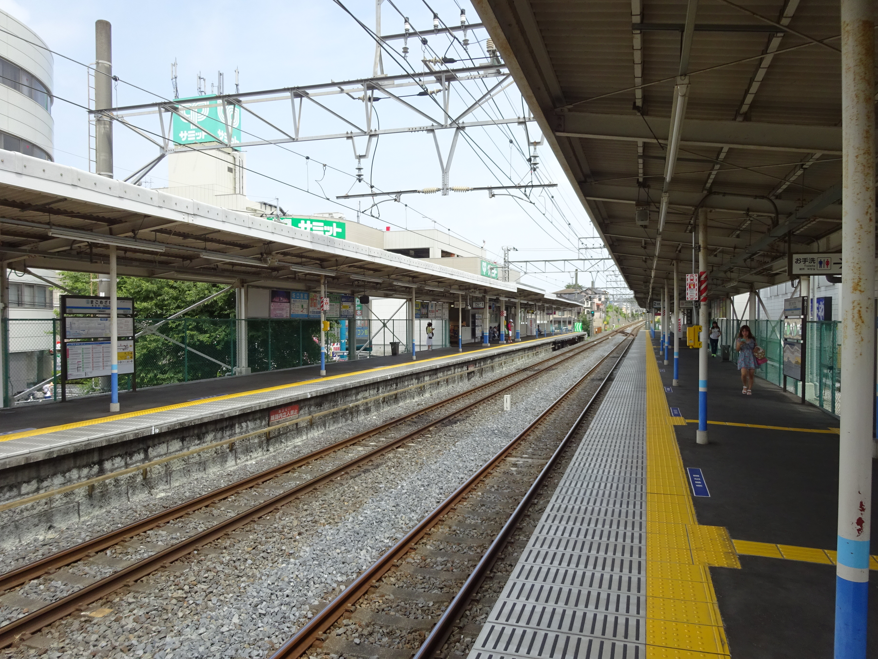 Platforms of Magomezawa Station